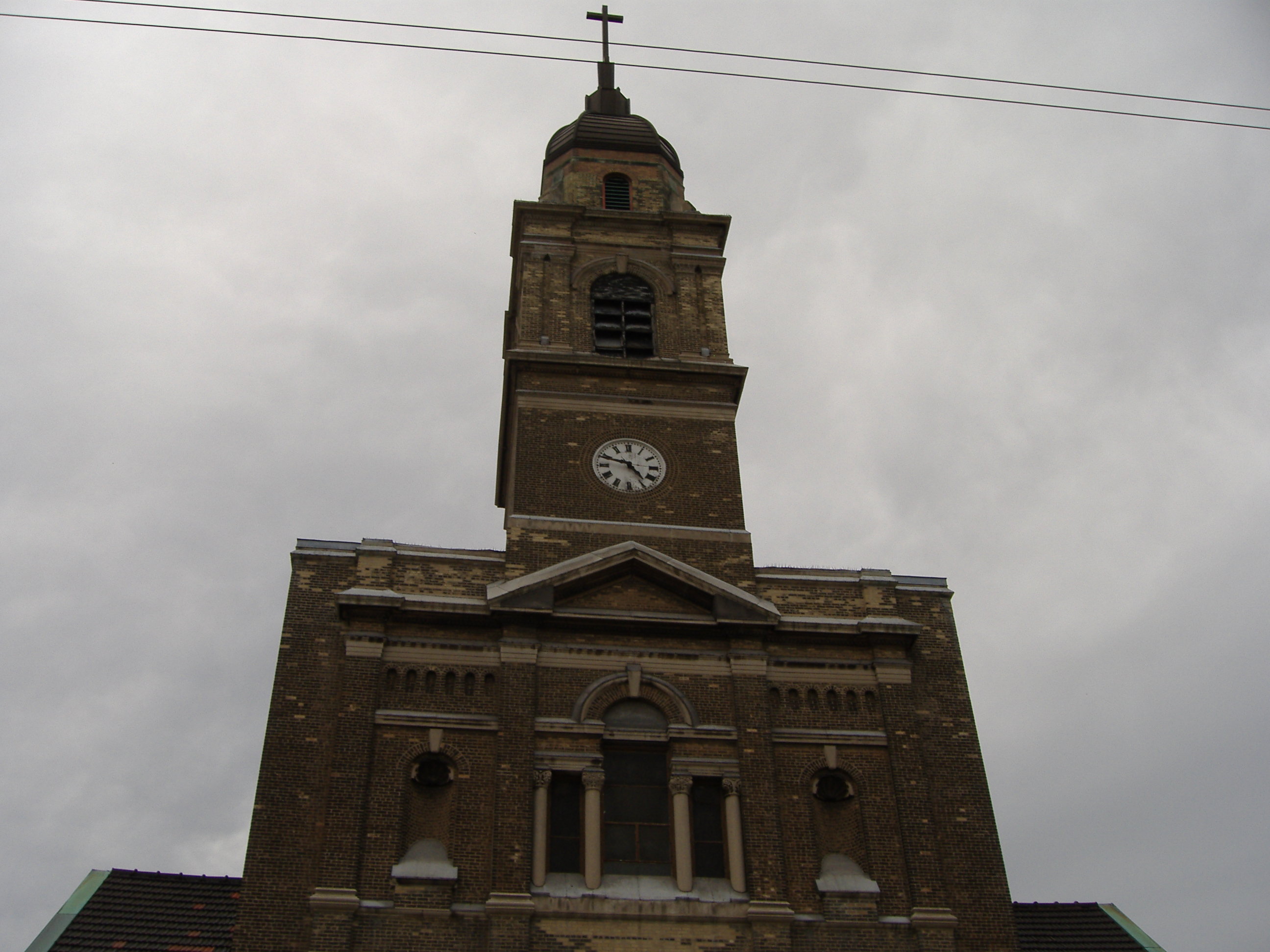 This is on 88th and Commercial in Chicago. Now called the Church of the Redeemer, it was a Catholic church built in 1898 to serve the then-Polish Southeast Side.